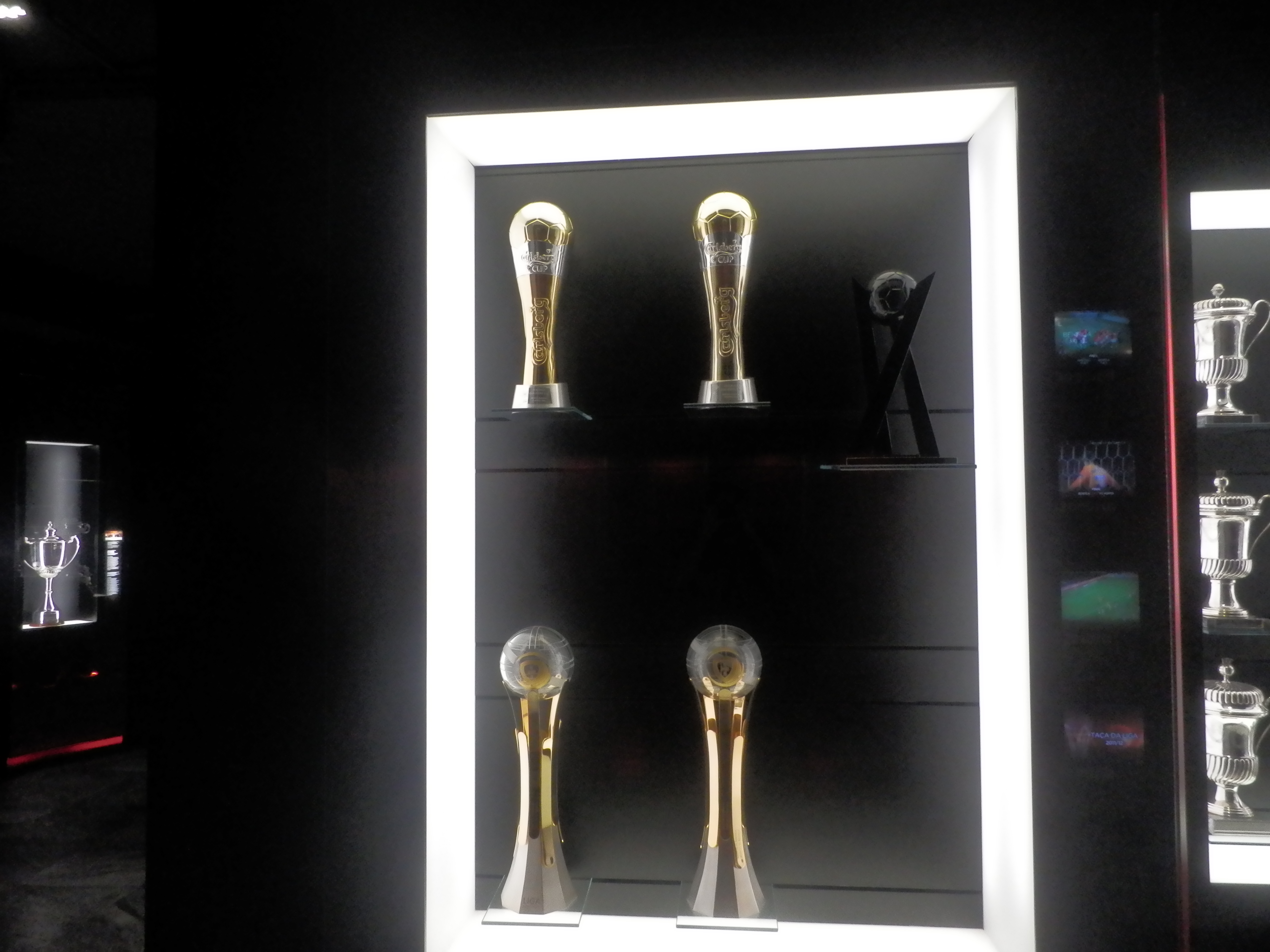 Five of the club six Taça da Liga trophies.